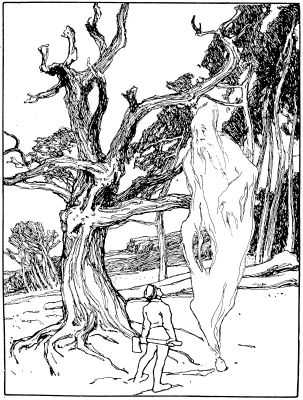 Illustration by Otto Ubbelohde to the fairy tale The Spirit in the Bottle